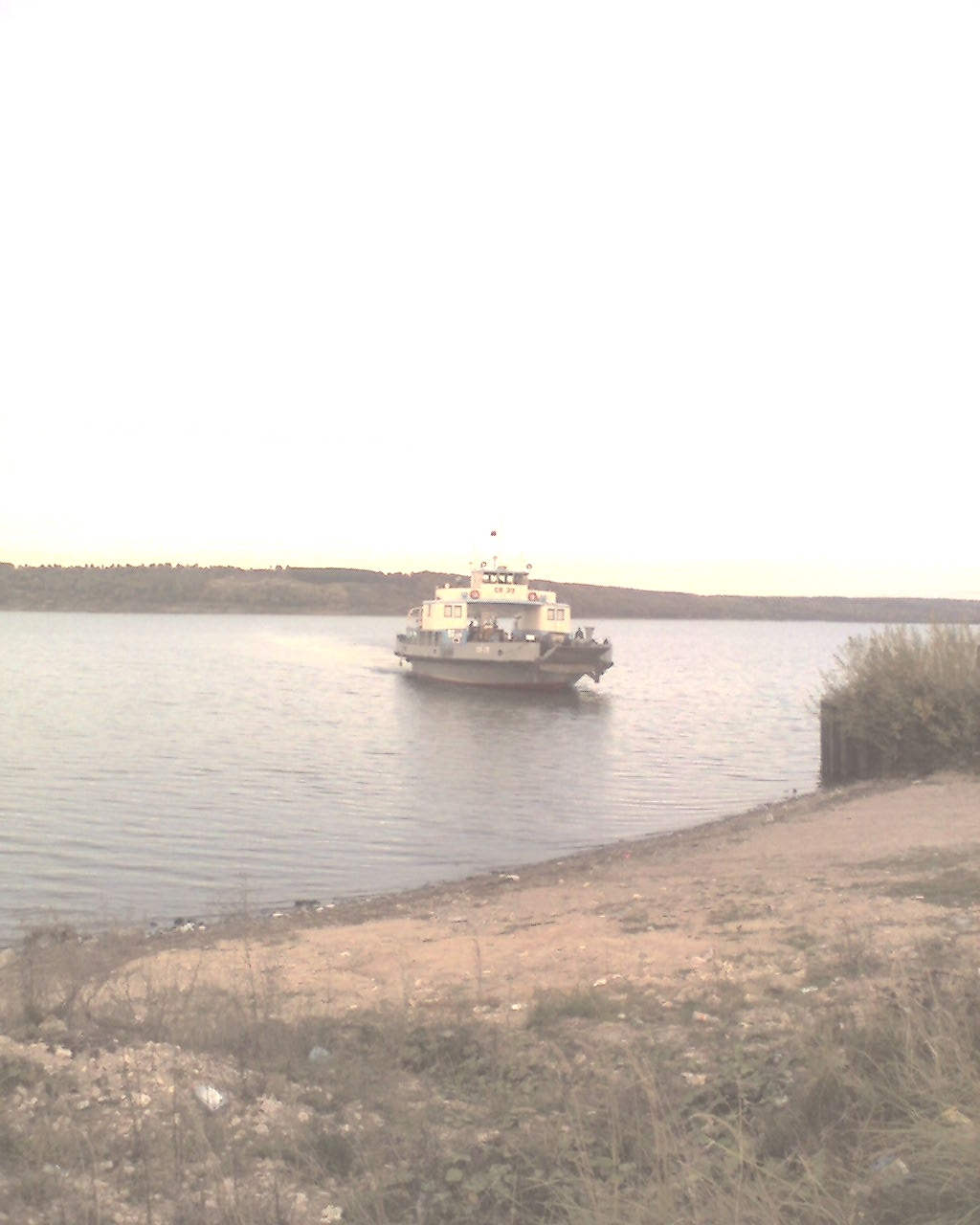 A ferry on the Sura River near Vasilsursk, Nizhny Novgorod Oblast, Russia.